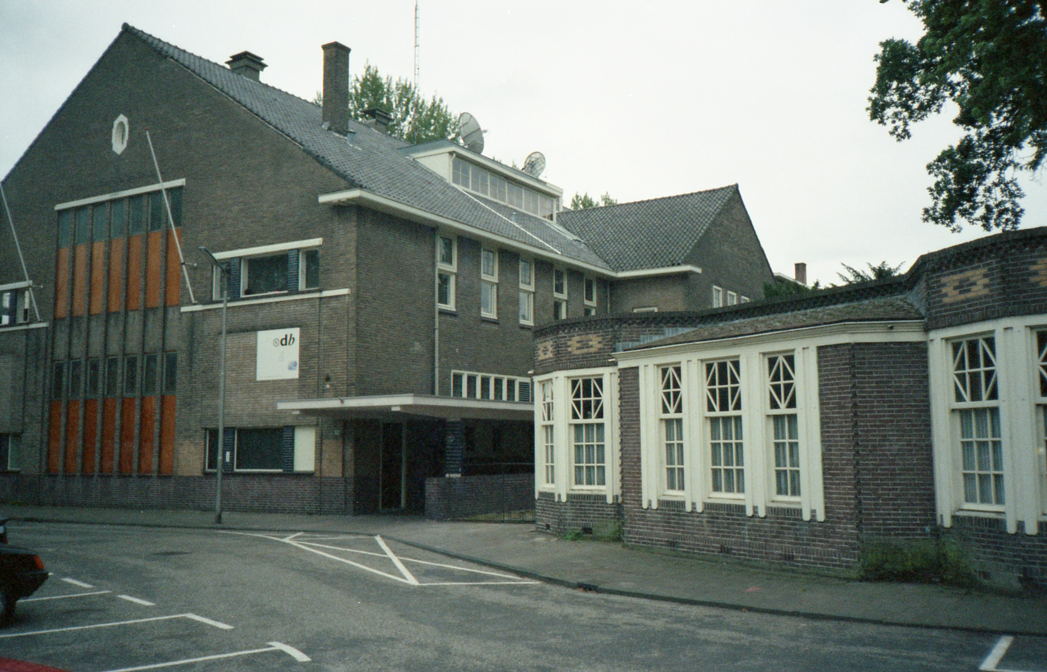 Studio Concordia, Bussum, Holland, The Netherlands, 1991-06